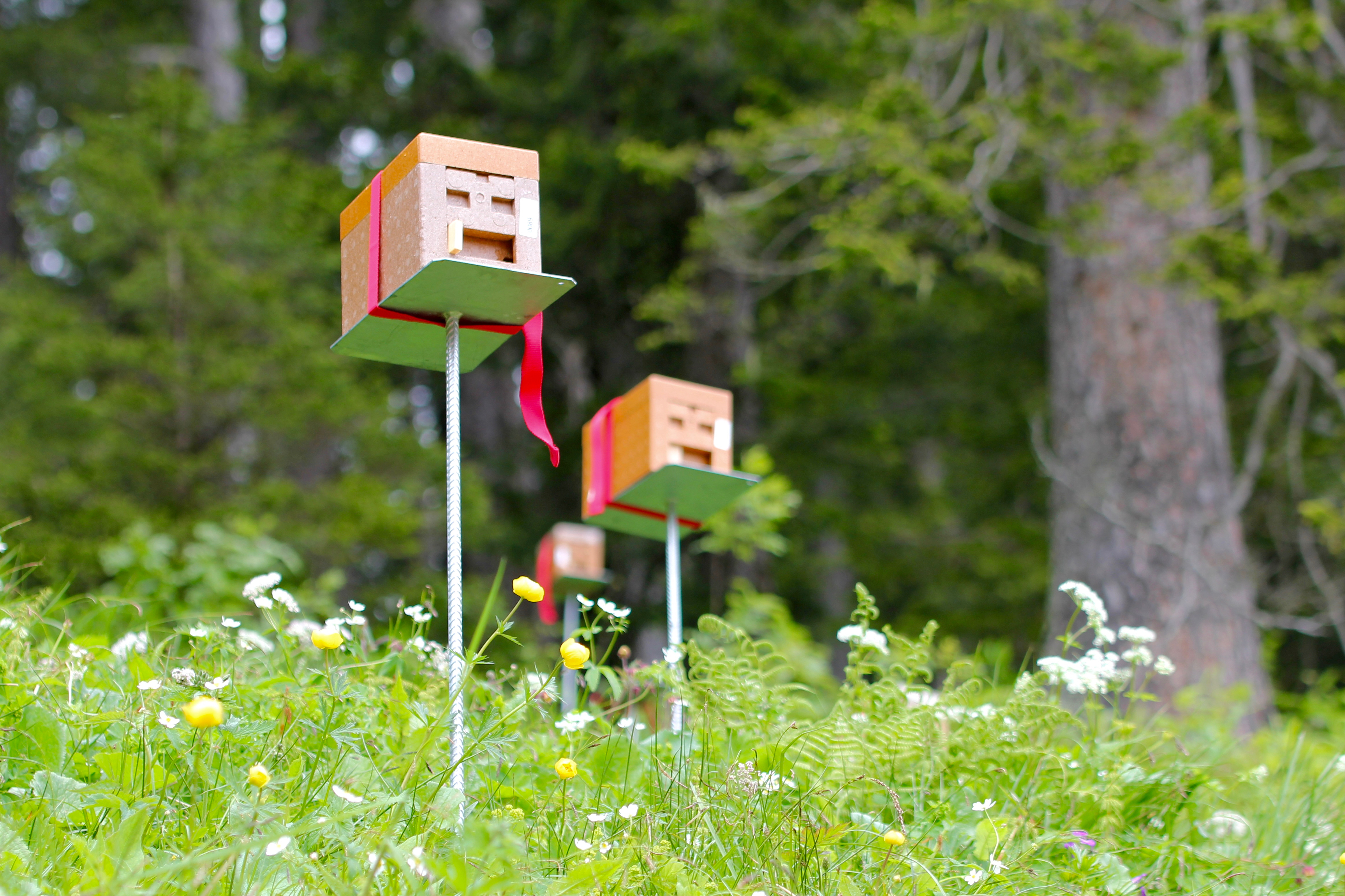 Mating nuc (Apidea box) on the isolated mating location for dark bees (Apis mellifera mellifera) in Sernftal, Glarus, Switzerland.